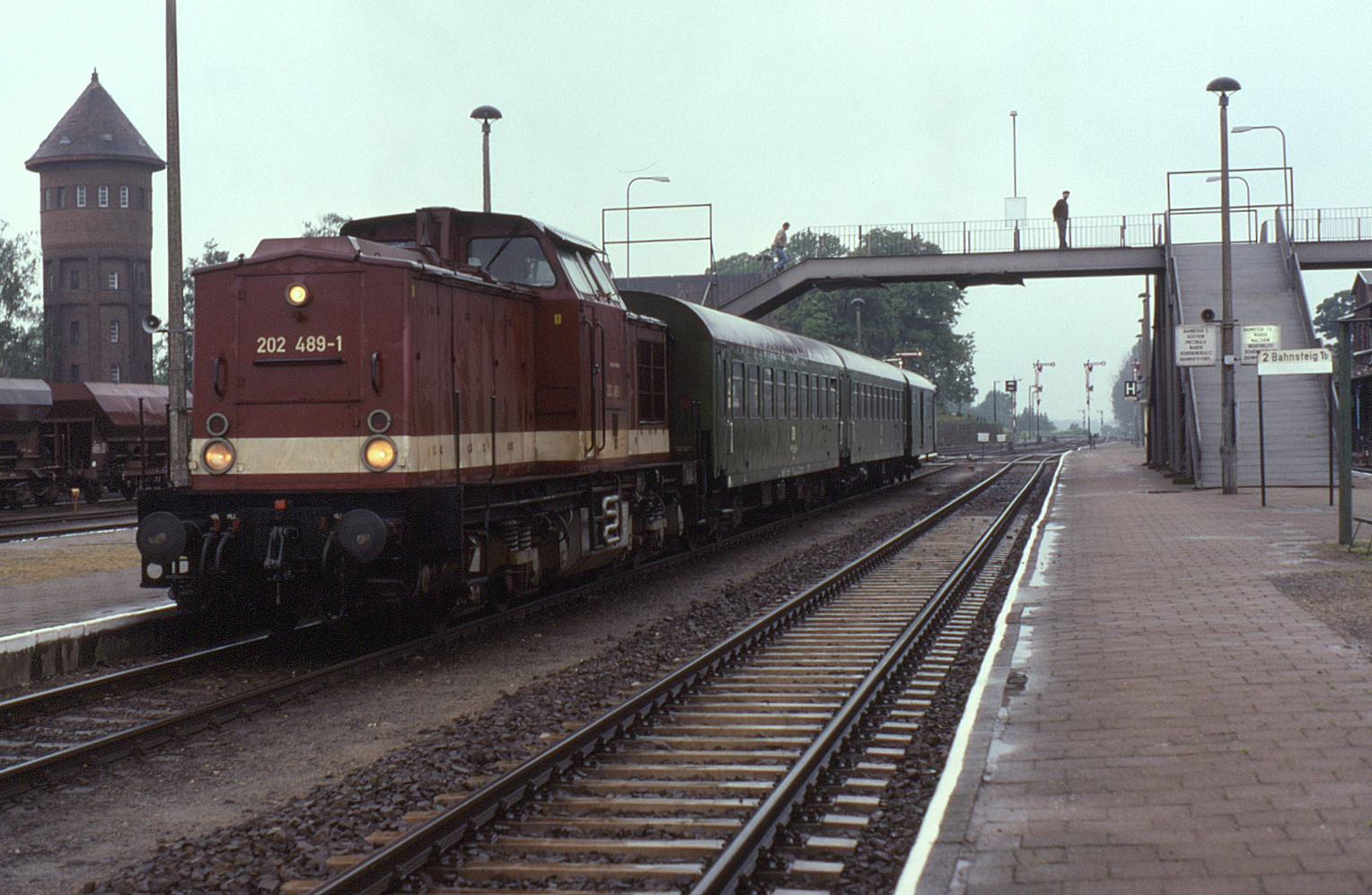 202.489 ready to depart on train 7626, 14:44 Karow (Meckl) to Wismar on 22 May 1993